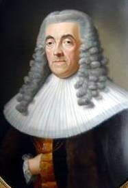 portrait of Gabriel Christian Lembke (1738-1799)